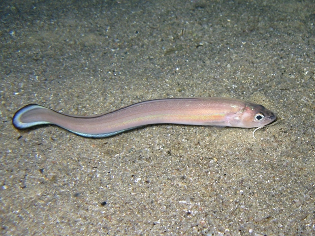 Ophidion barbatum photograped in Sardinia, Italy.